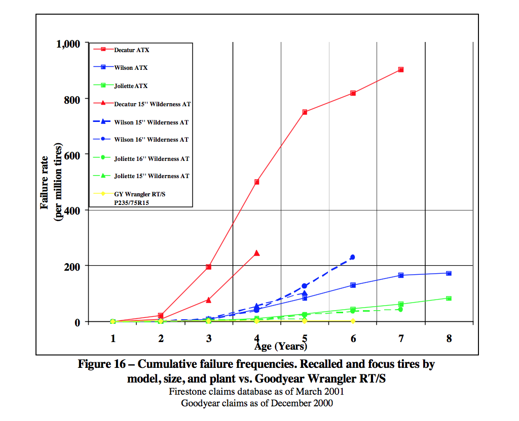 Graph showing cumulative failure rates of Firestone tires manufactured at different plants and related to the NHTSA investigation of tread separation of Firestone tires started on May 2000.